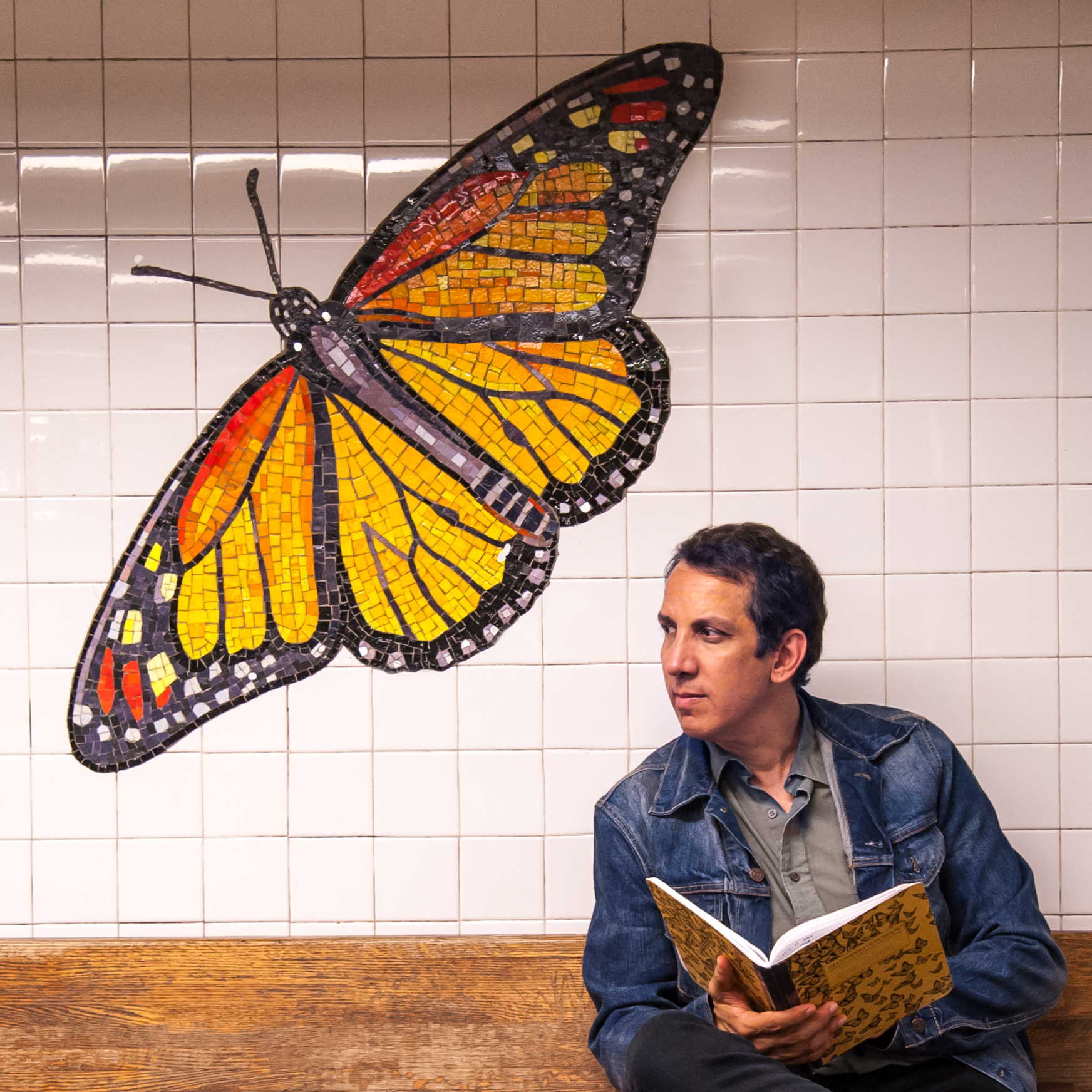 Photo of Peter Kuper, Graphic Artist at the NYC 81st street Subway Station